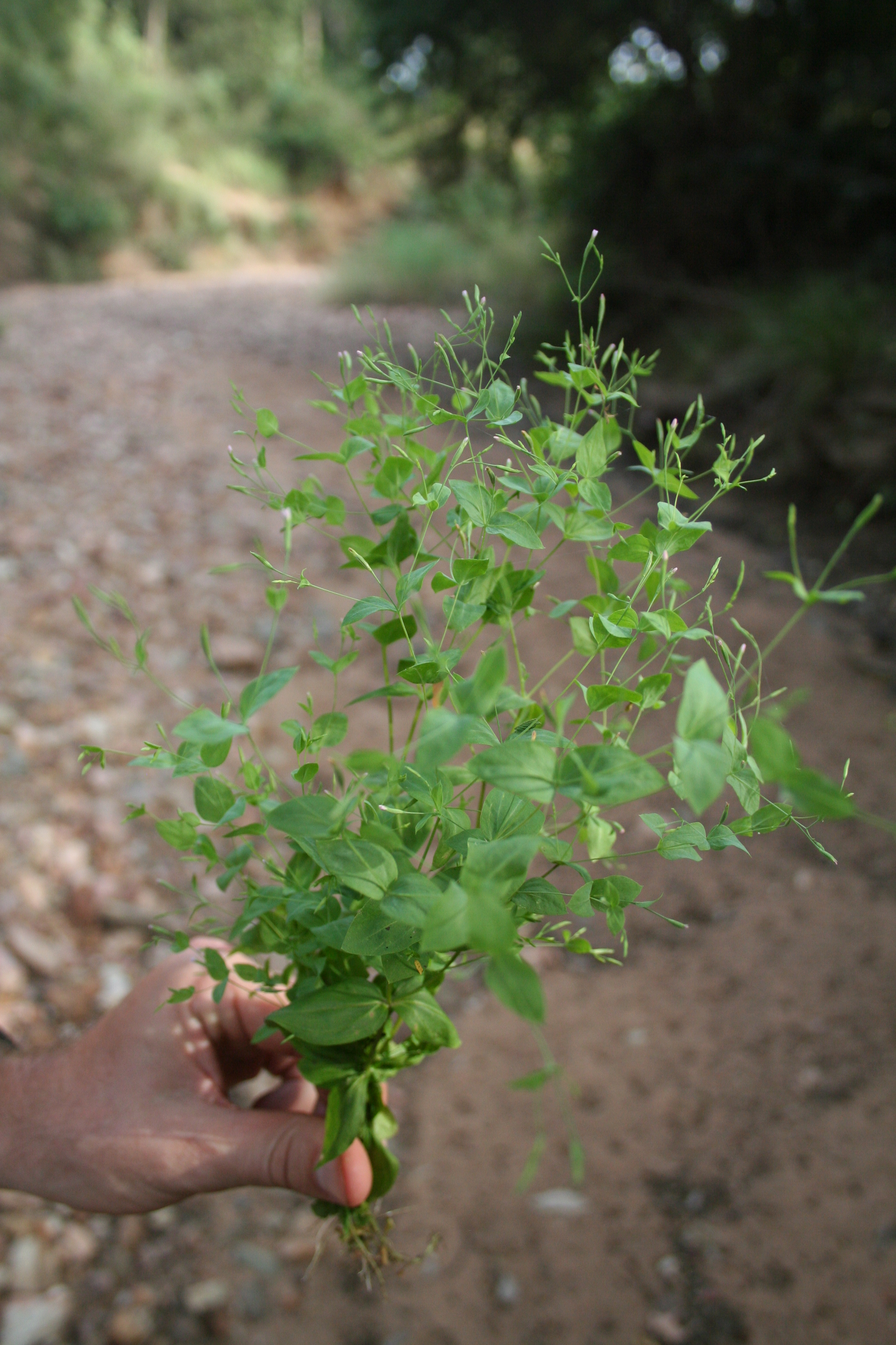 Canscora diffusa from a riverbed in SE Burkina Faso